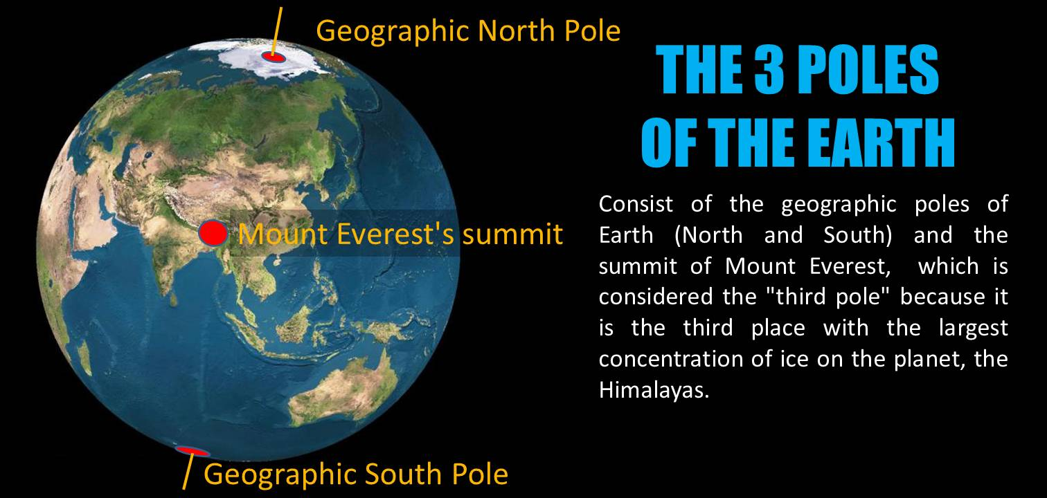 3poles